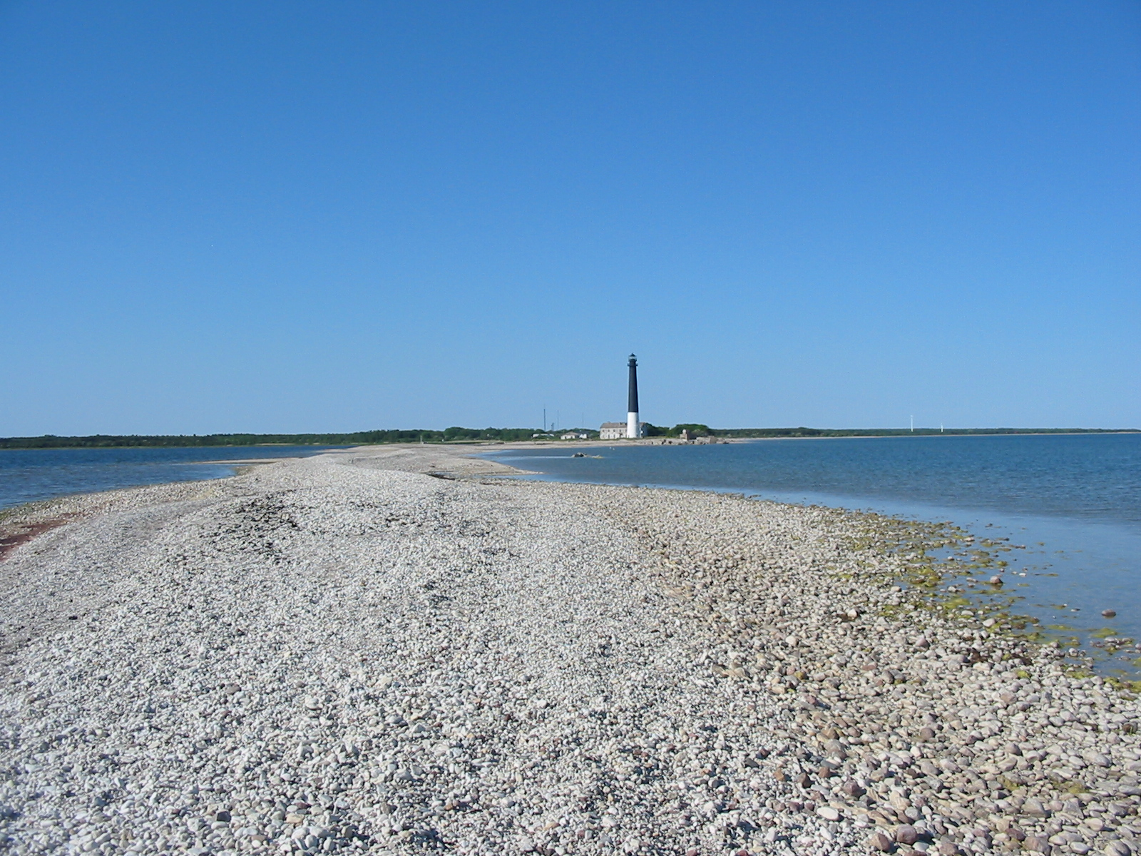 Southernmost tip of Sõrve Peninsula. View towards the island of Saaremaa.